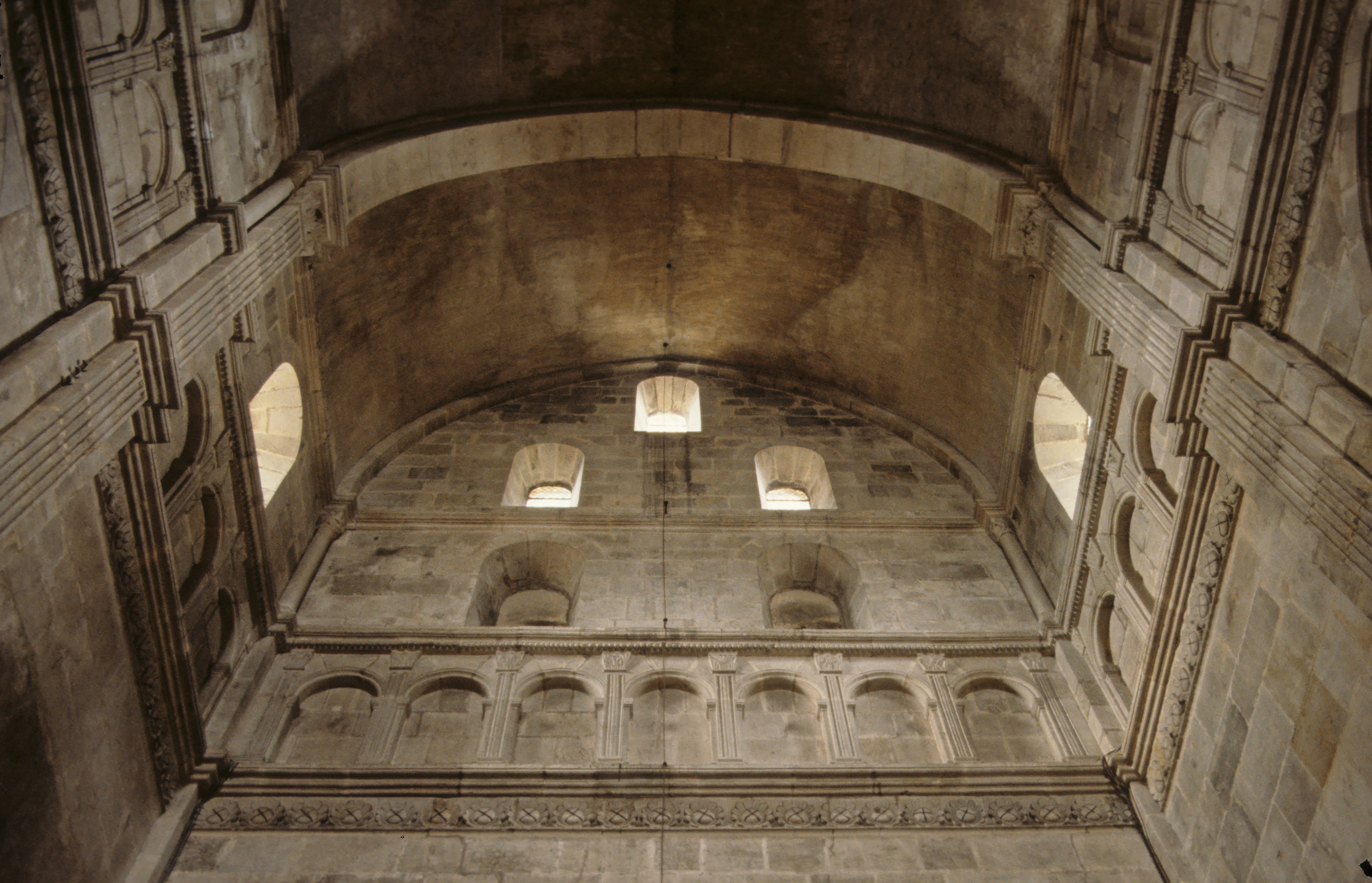 Romanesque barrel vault and arch band at Autun Cathedral